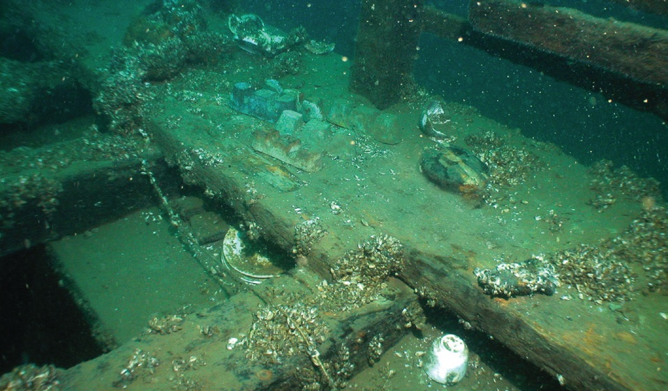 Artifacts aboard the shipwreck of SS Pewabic in Lake Huron, Thunder Bay National Marine Sanctuary, Michigan, United States. Caption in source document: Moved by divers from their original disposition on the wreck of the steamer Pewabic, several artifacts such as copper ingots and ceramic cups and plates have been placed on deck and are more likely to be looted. Although sanctuary regulations and Michigan law prohibit moving artifacts, the practice occurs at many sites where divers want to provide better viewing and photography opportunities. The sanctuary works with the dive community to curb this practice.... Clearly unacceptable is the handling and relocation of human remains, an activity that has been documented at the Pewabic site.